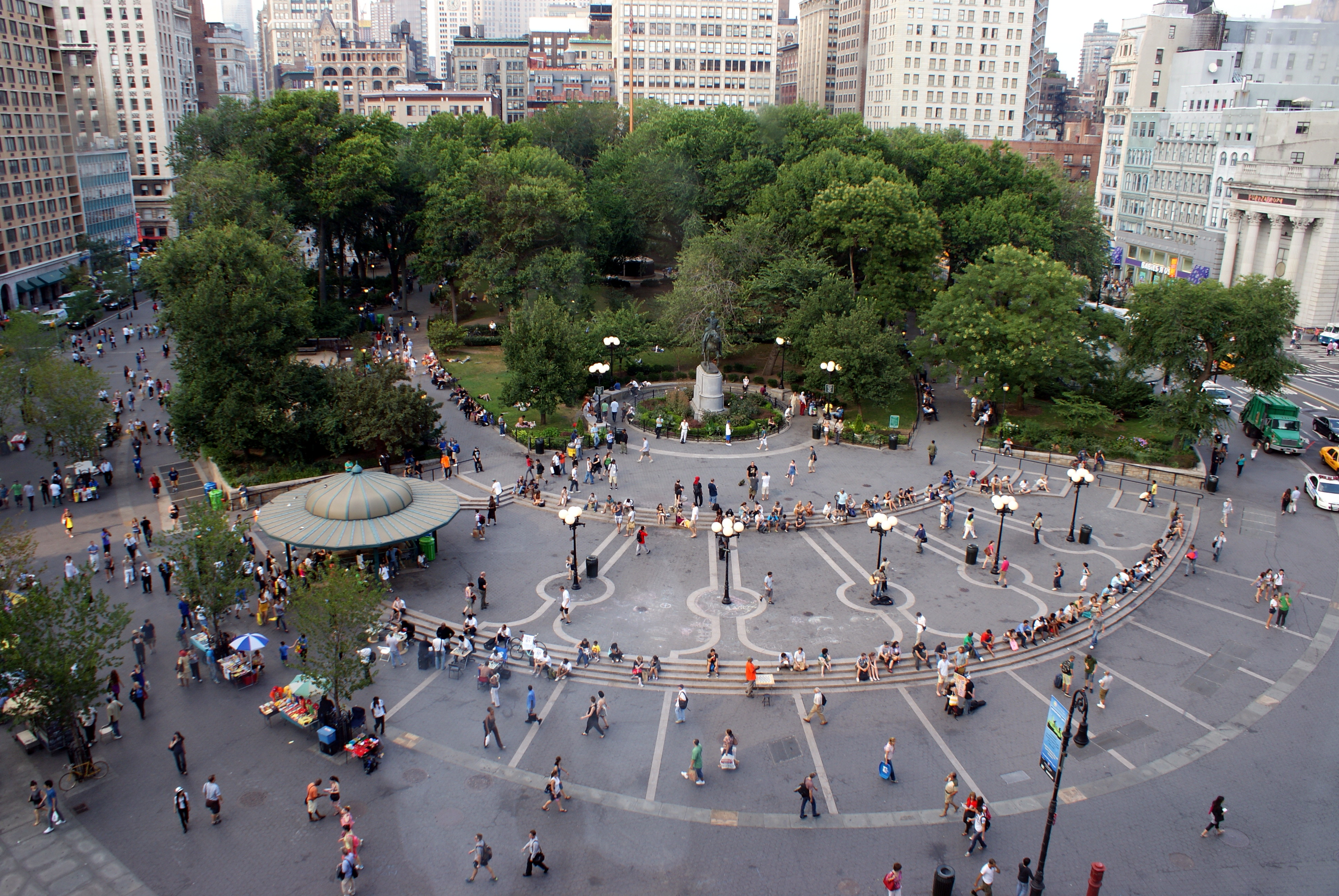 Union Square in New York